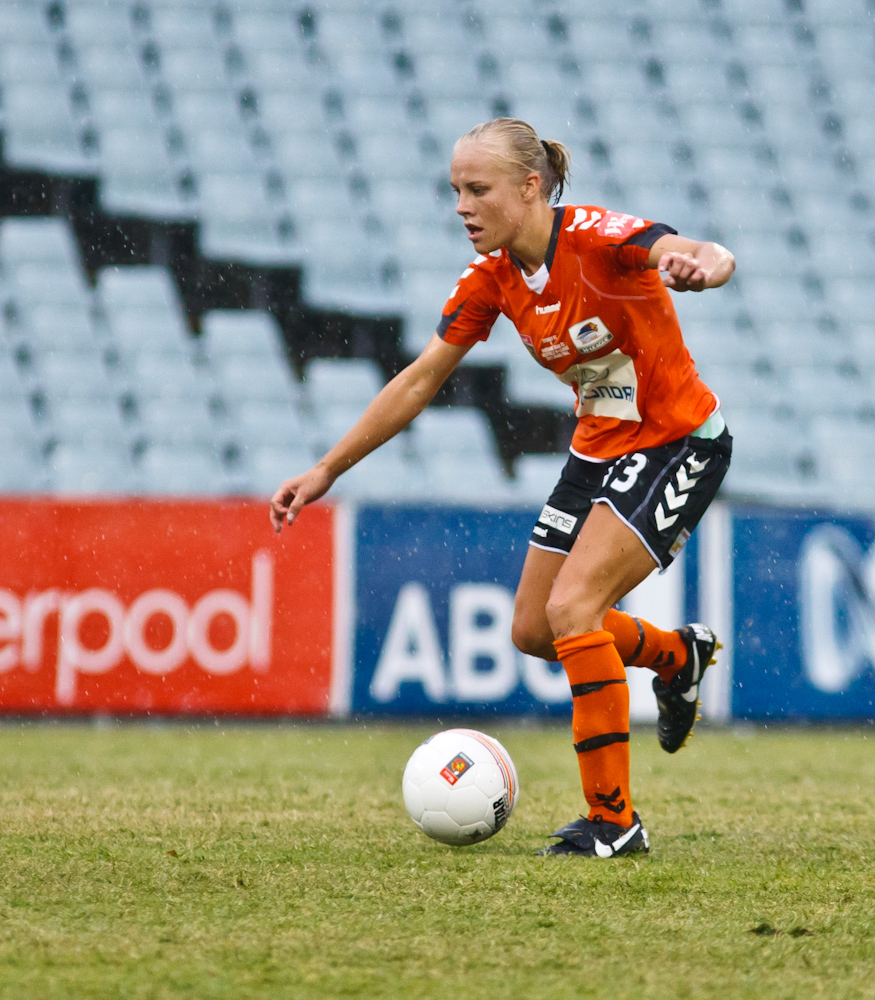 Tameka Butt playing for Brisbane Roar in the 2010-11 W-League Grand Final against Sydney FC.